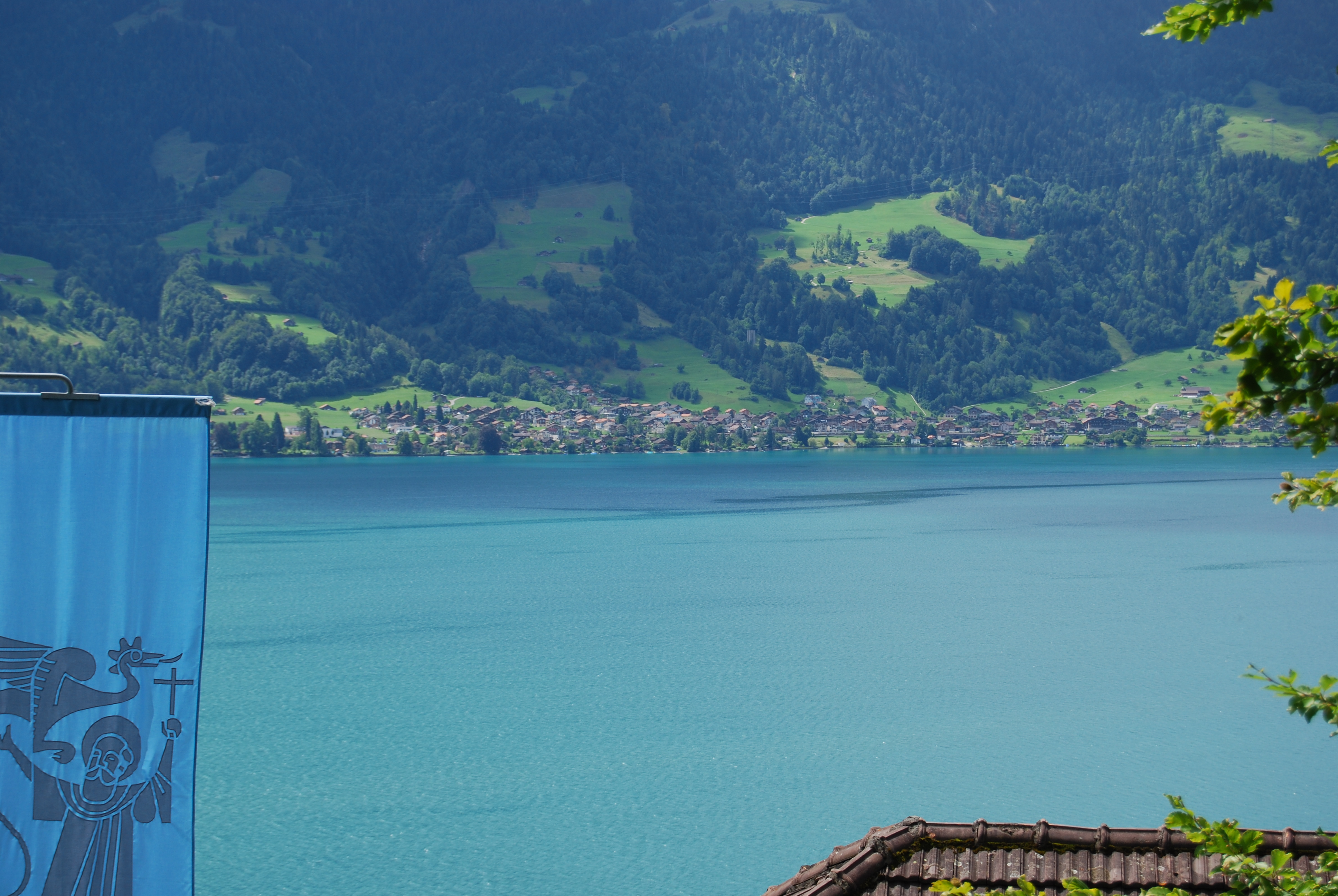 Few to Leissigen and Lake Thun form the entry of the Saint Beatus Caves, municipality of Beatenberg, canton of Bern, Switzerland